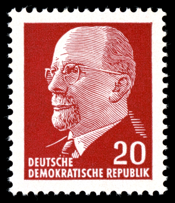 Ausgabepreis: Pfennig First Day of Issue / Erstausgabetag: Auflage: Entwurf: Druckverfahren: Michel-Katalog-Nr: Ländercode-MiNr: Licensing This file is most likely NOT in the public domain. It has been marked for review, and will be deleted in due course if the review does not find it to be in the public domain. This file was previously considered to be in the public domain as a German stamp; it is possible that it is in the public domain for other reasons, in which case a new rationale will be applied as part of the review process. See below for the previous rationale. Previous public domain rationale, no longer applicable This stamp is in the public domain in Germany because it was released by the postal administration of the German Democratic Republic or the Soviet occupation zone (Deutschen Post der DDR) whose legal successor is the Federal Republic of Germany. Thus it is an official work according to German copyright law (§ 5 Abs. 1 UrhG).